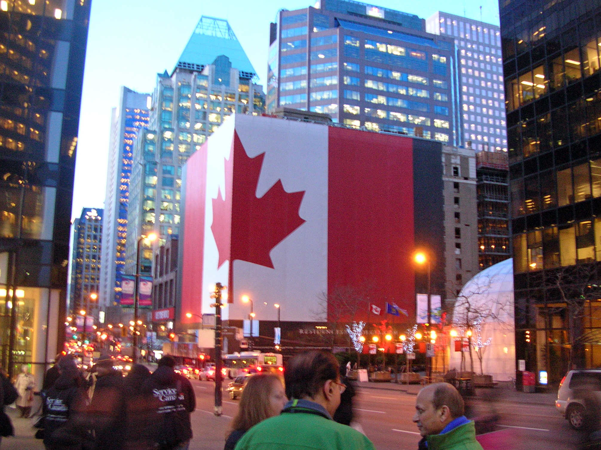 Giant Canadian flag in downtown Vancouver